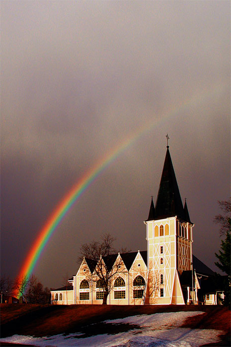 Wodden church in Arvidsjaur, Lappland, Sweden